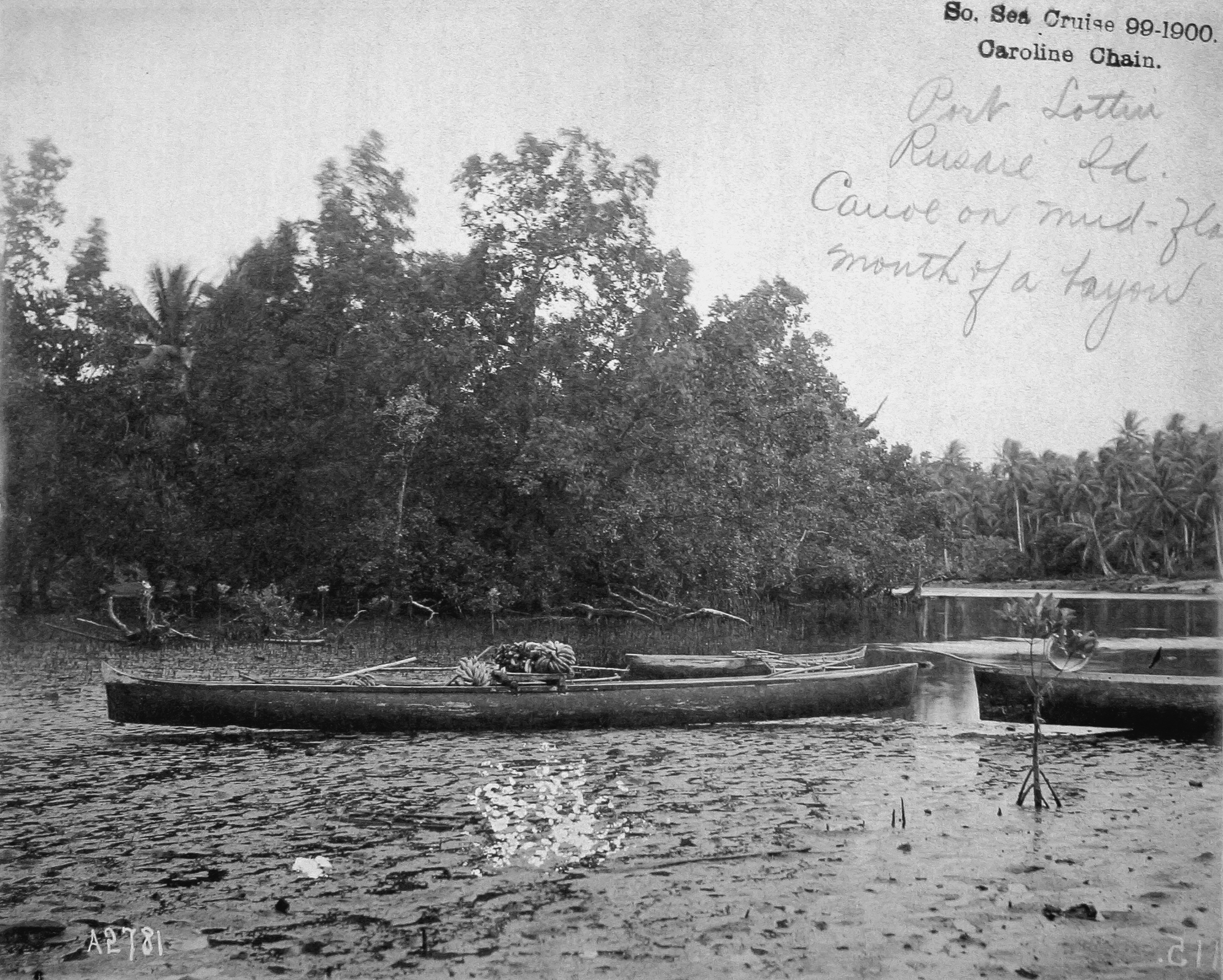 South Sea cruise 1899-1900, Caroline Chain, Port Lottin, Kusaie Island, canoe on mud-flat mouth of a bayou. Note that this image has tones rebalanced.